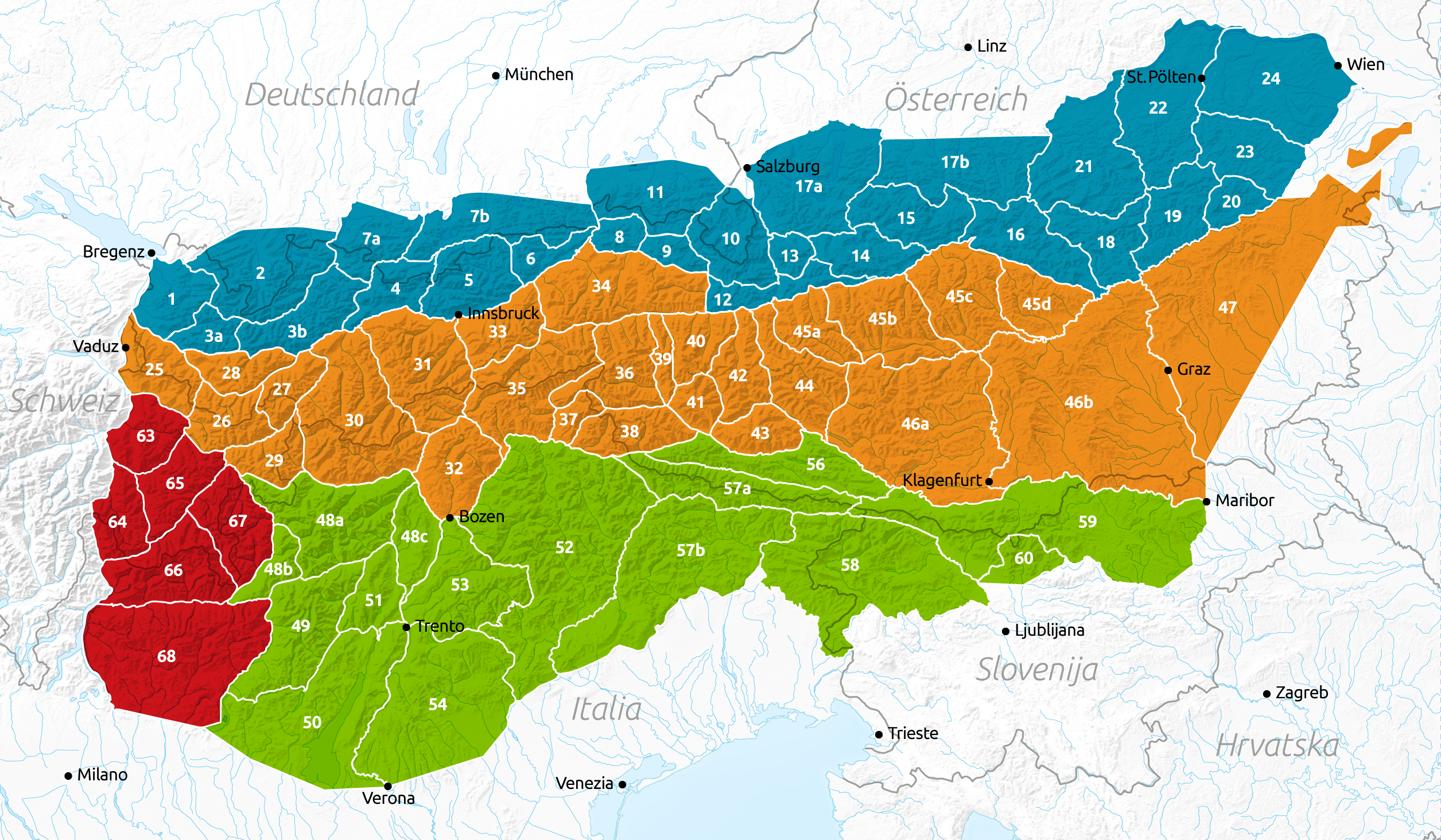 Overview map of the Alpine Club classification of the Eastern Alps Northern Limestone Alps Central Eastern Alps Southern Limestone Alps Western Limestone Alps